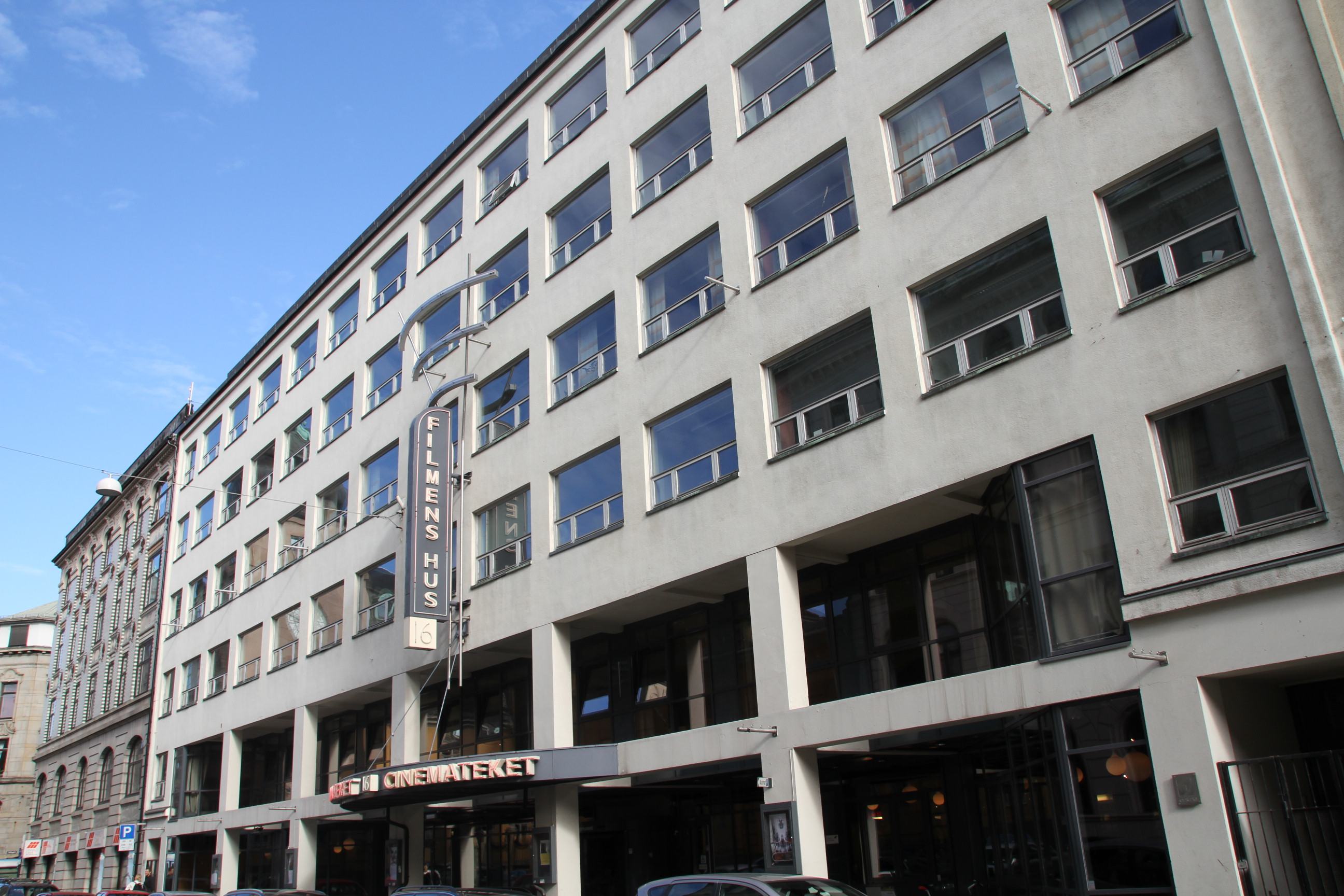 Filmens Hus (House of Cinematography), Oslo, Norway